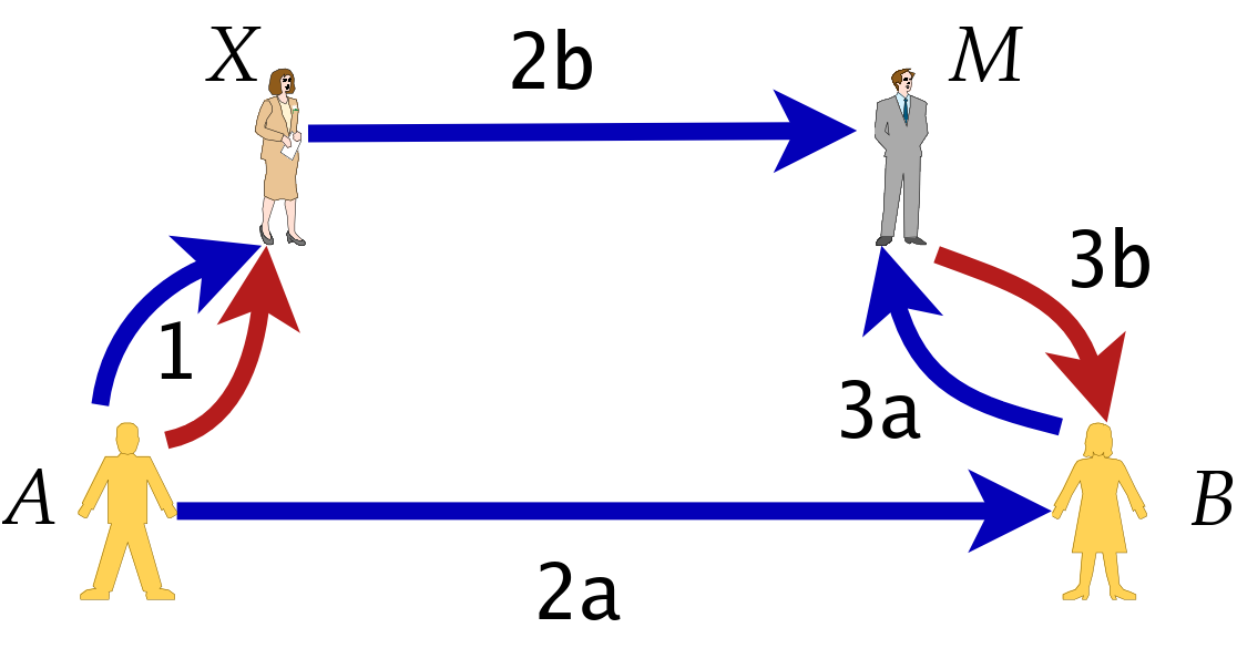 Example for the Hawala banking system: Person A wants to transfer money to person B, using the services of the "hawaladars" X and M. 1. A hands the money (red) to his hawaladar X and also tells him the code word (blue). 2a. Then, A tells B the code word. 2b. Independent of this, X tells the code word to M. 3a. B tells the code word to M... 3b. ...which shows to M that B is a legitimate receiver of the money, so he hands over the money to B. Legend: blue = shared code word is being told, red = money is handed over Created with dia, version 0.96.1 Also see File:Hawala.svg.